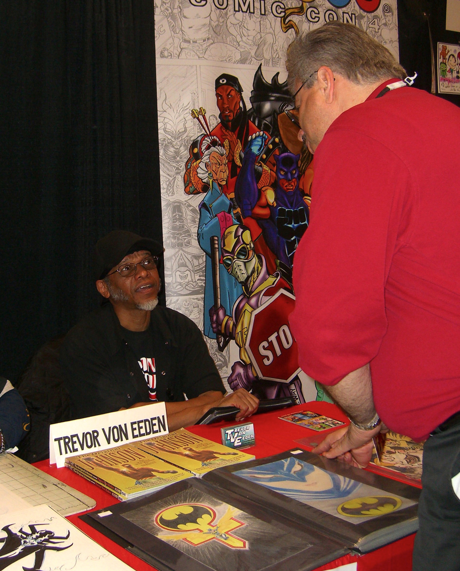 Comics creator Trevor Von Eeden on Day 3 of the 2012 New York Comic Con, Saturday October 13, 2012 at the Jacob K. Javits Convention Center in Manhattan. This photo was created by Luigi Novi. It is not in the public domain, and use of this file outside of the licensing terms is a copyright violation.